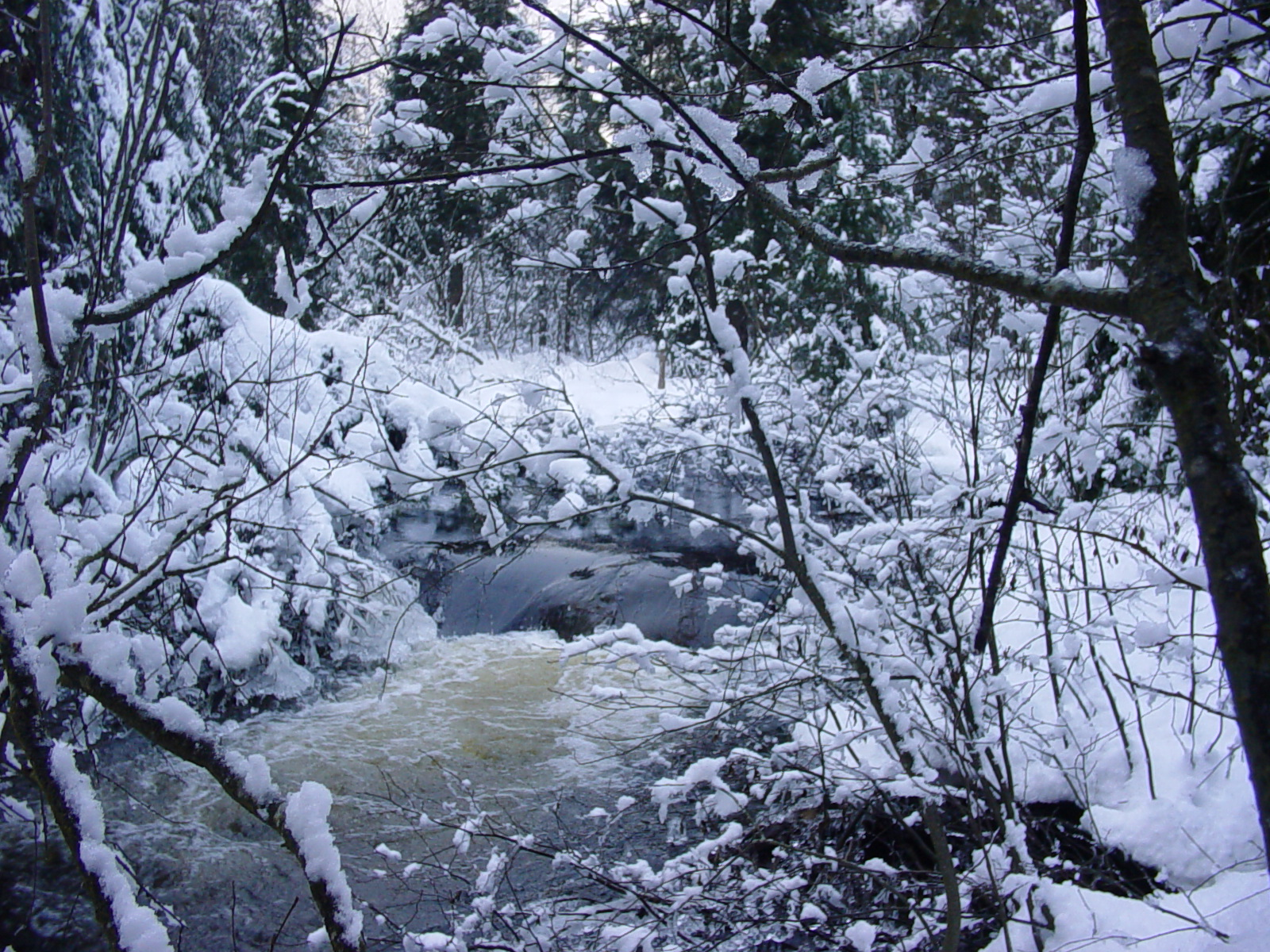 The Nelson River (Val-Bélair, Quebec City, Canada) near its source in winter. Photo taken by Gilles Savard, Canada / Photo par Gilles Savard, Canada.